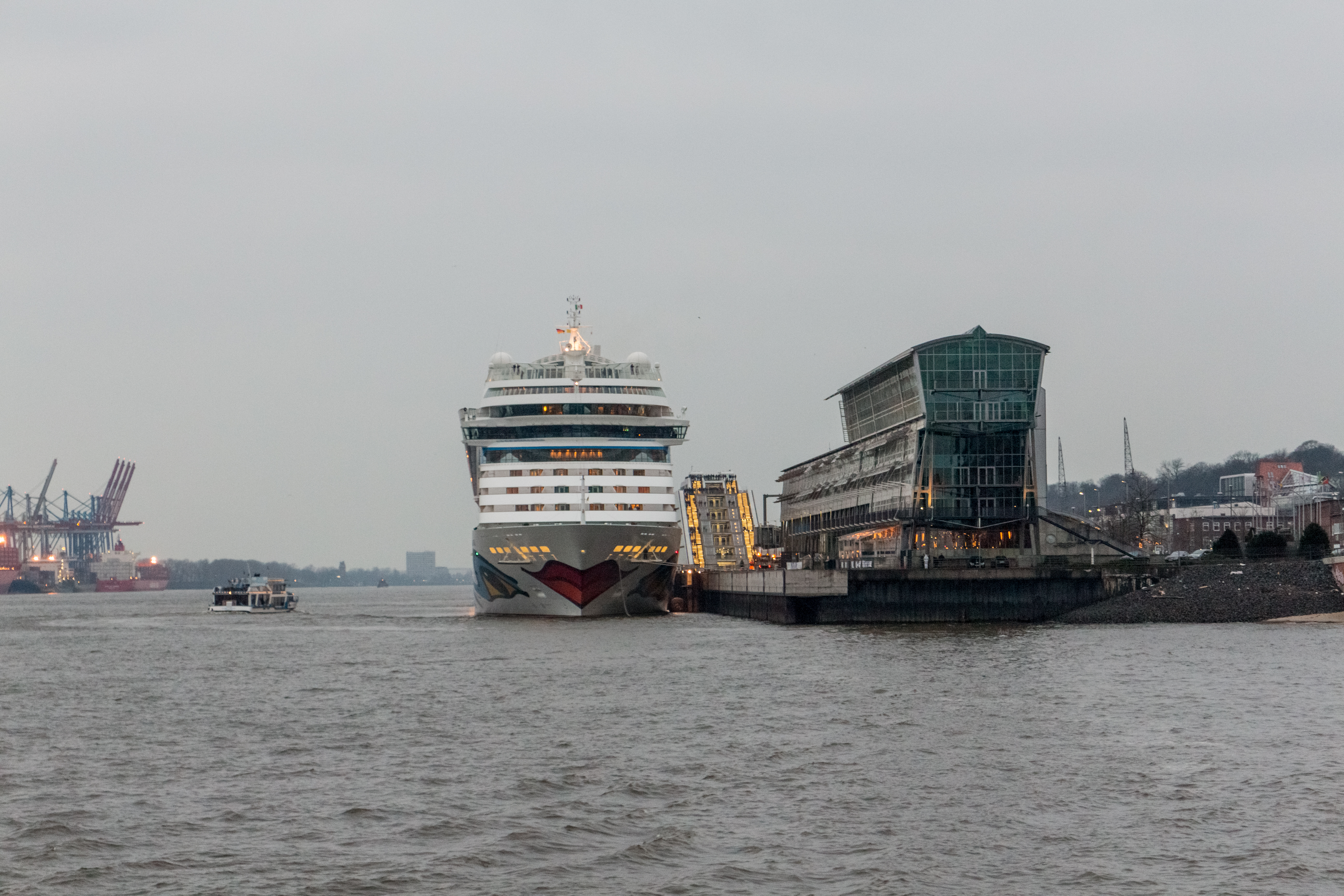 AIDAmar at Hamburg Cruise Center Altona